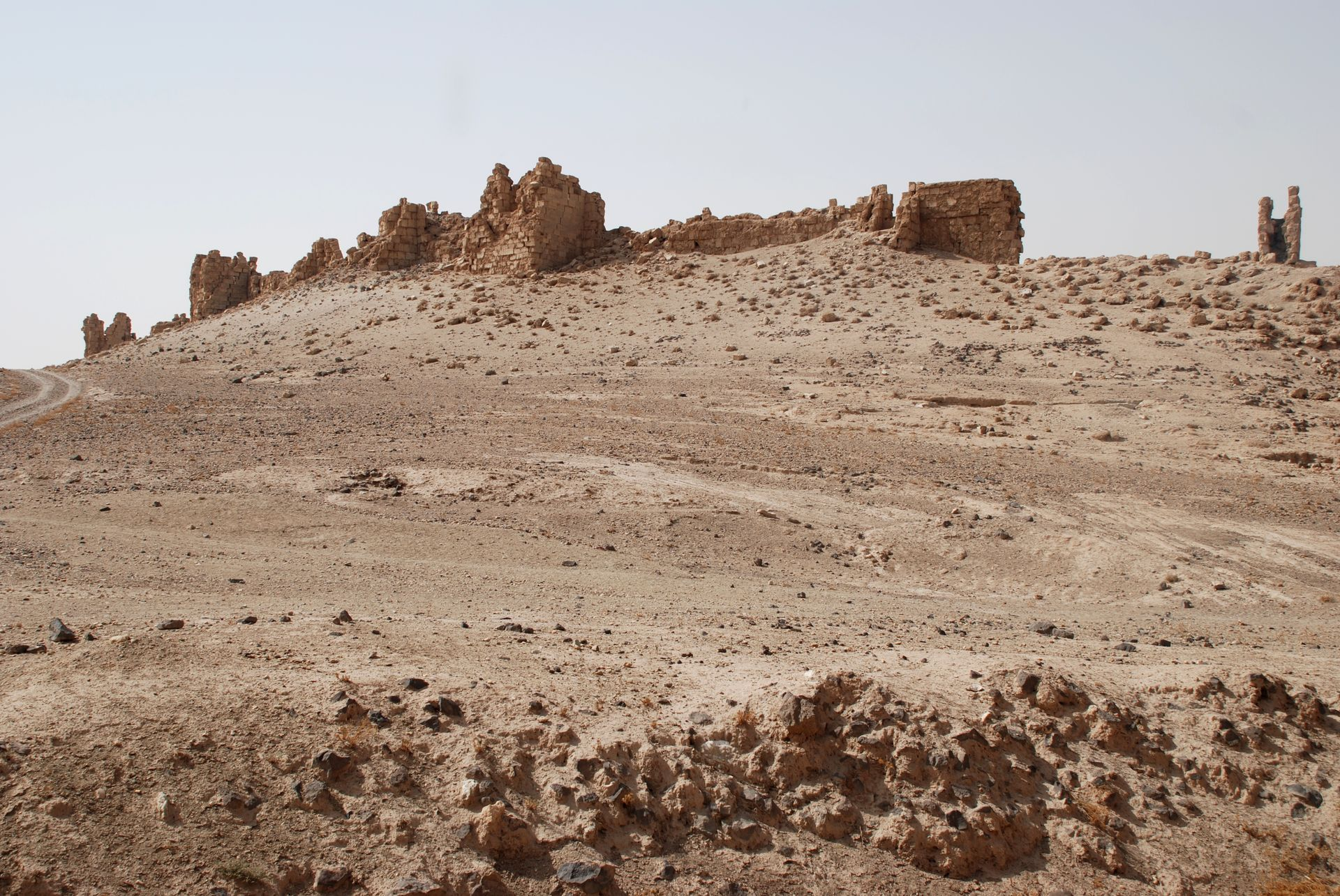 Zalabiyeh, near Halabiyeh, Syria, ruins from northeast